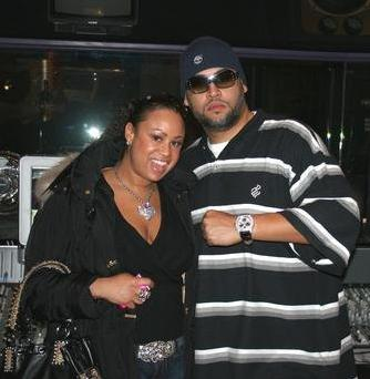 Cecilia Peniston with Felipe Delgado in Chaton Studios in 2007.